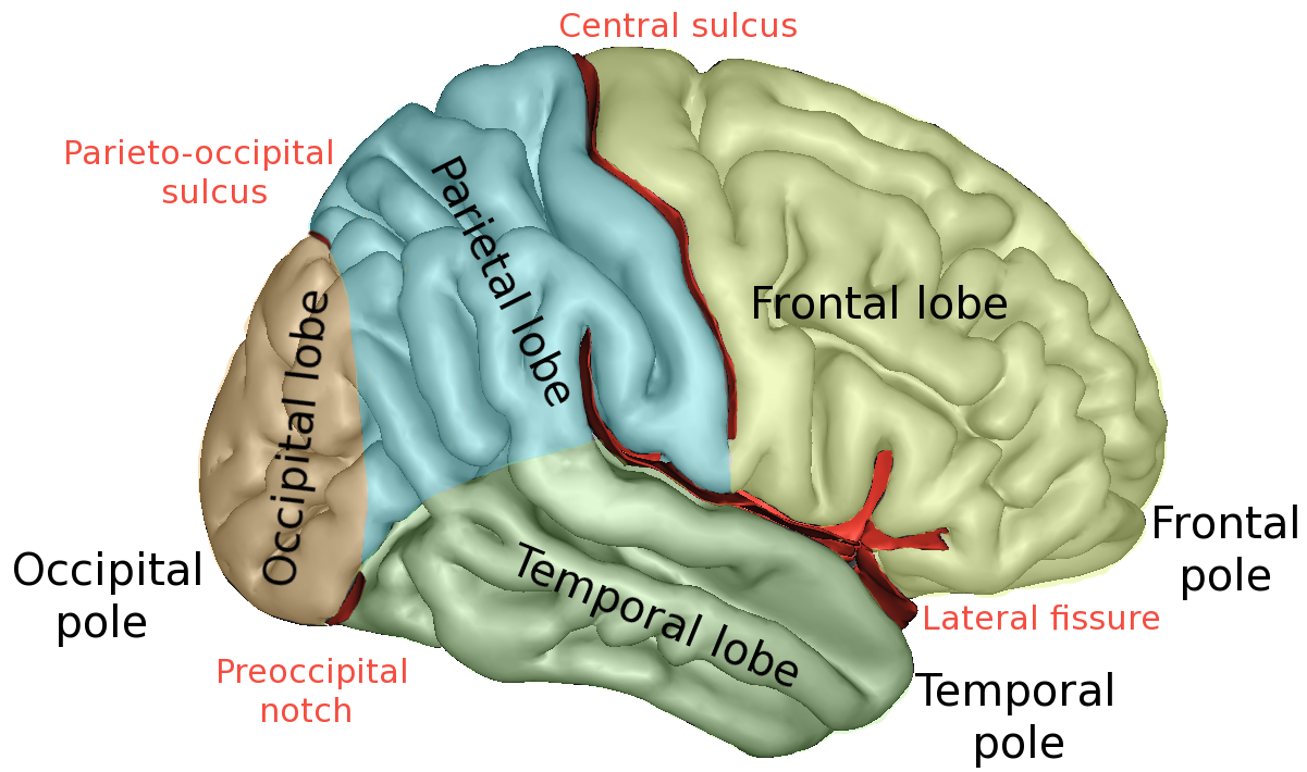 Brain lobes, main sulci and boundaries